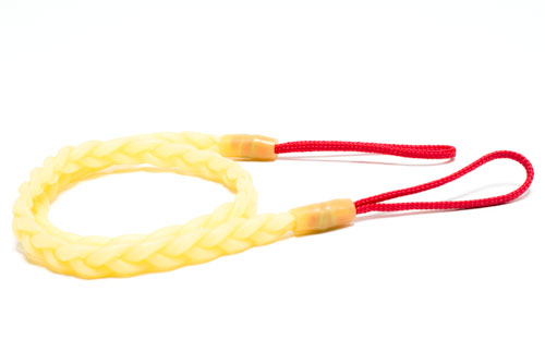 Lloyd Groff Copeman Invention - Flexo-Line Travel Clothesline